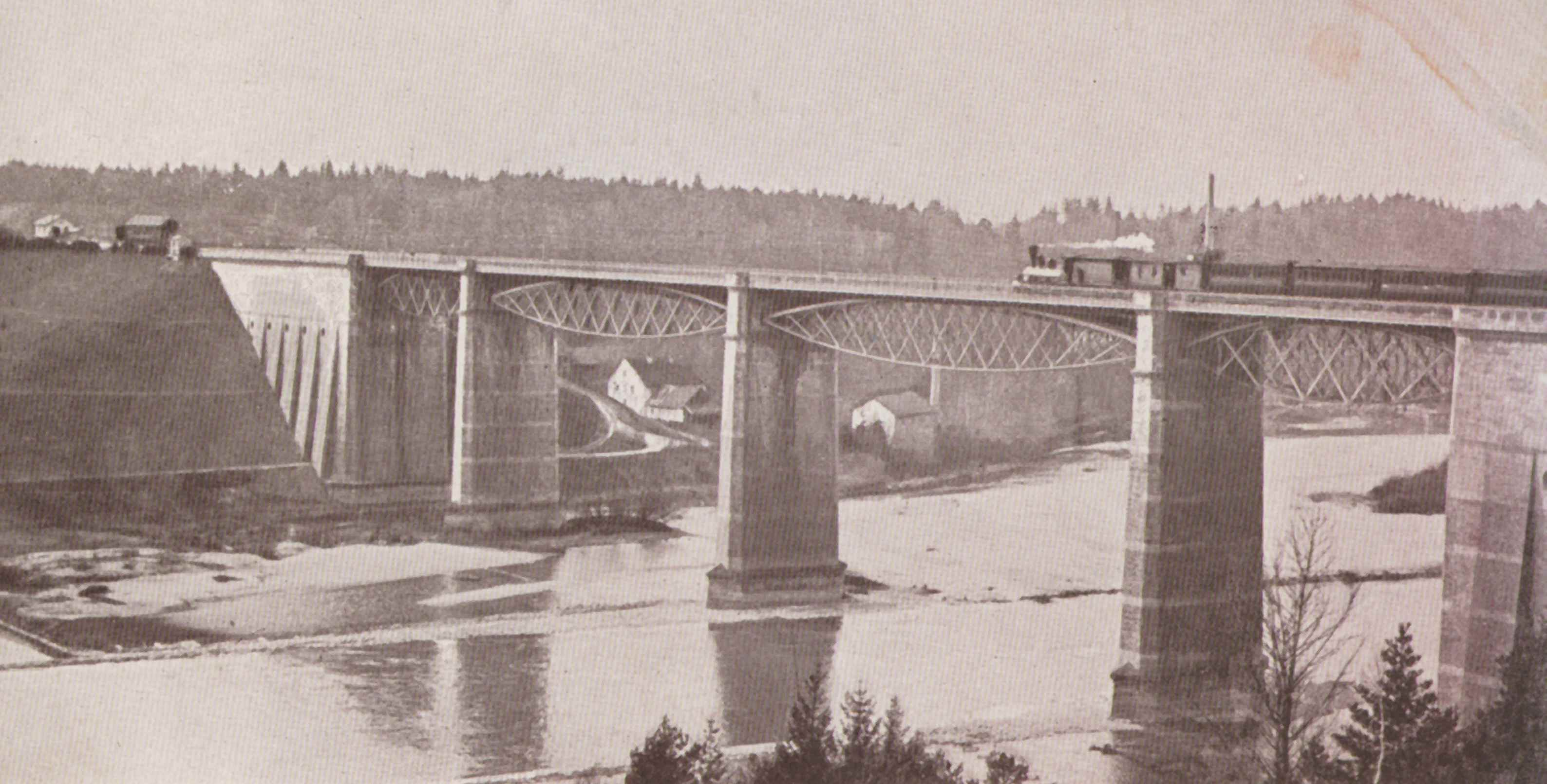 original Großhesseloher Brücke near Munich, built 1851-1857